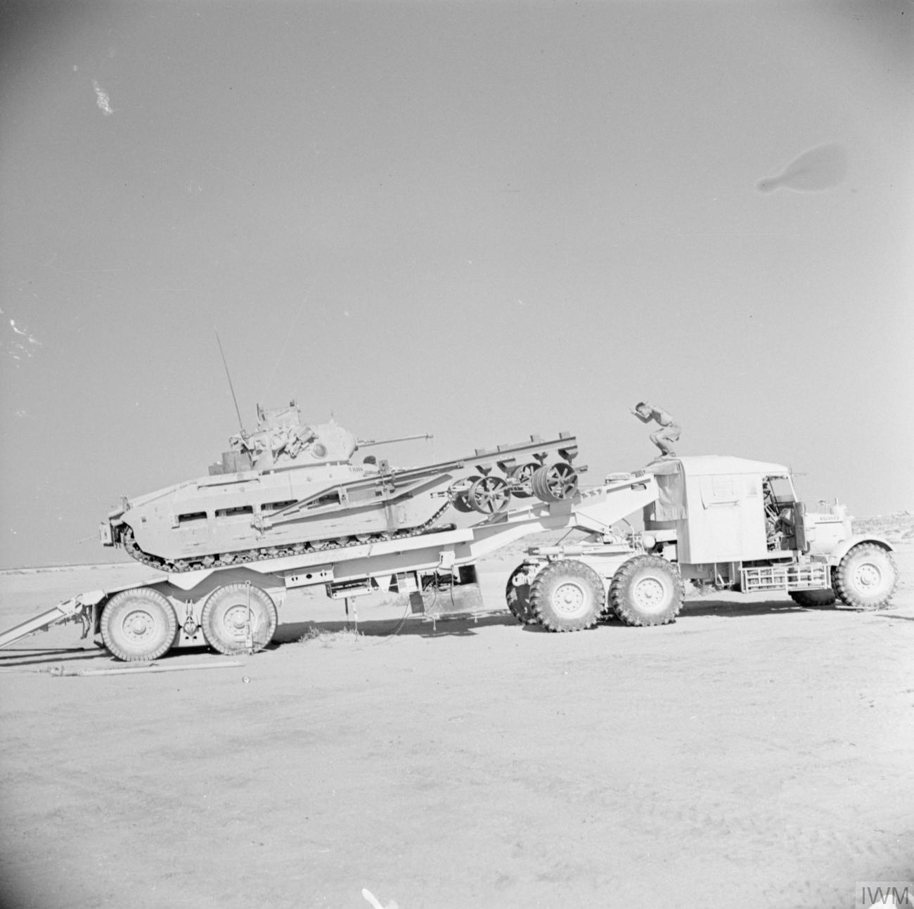 The British Army in North Africa 1942 A Matilda tank equipped with AMRA Mk 1a (Anti-Mine Roller Attachment) being loaded onto a transporter, 28 August 1942.